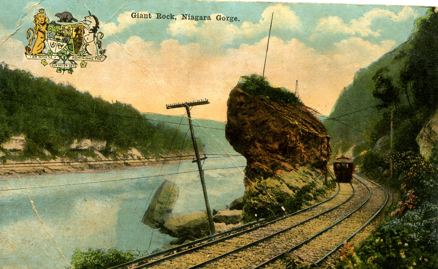 Postcard of Niagara Gorge Railroad, New York State, United States.